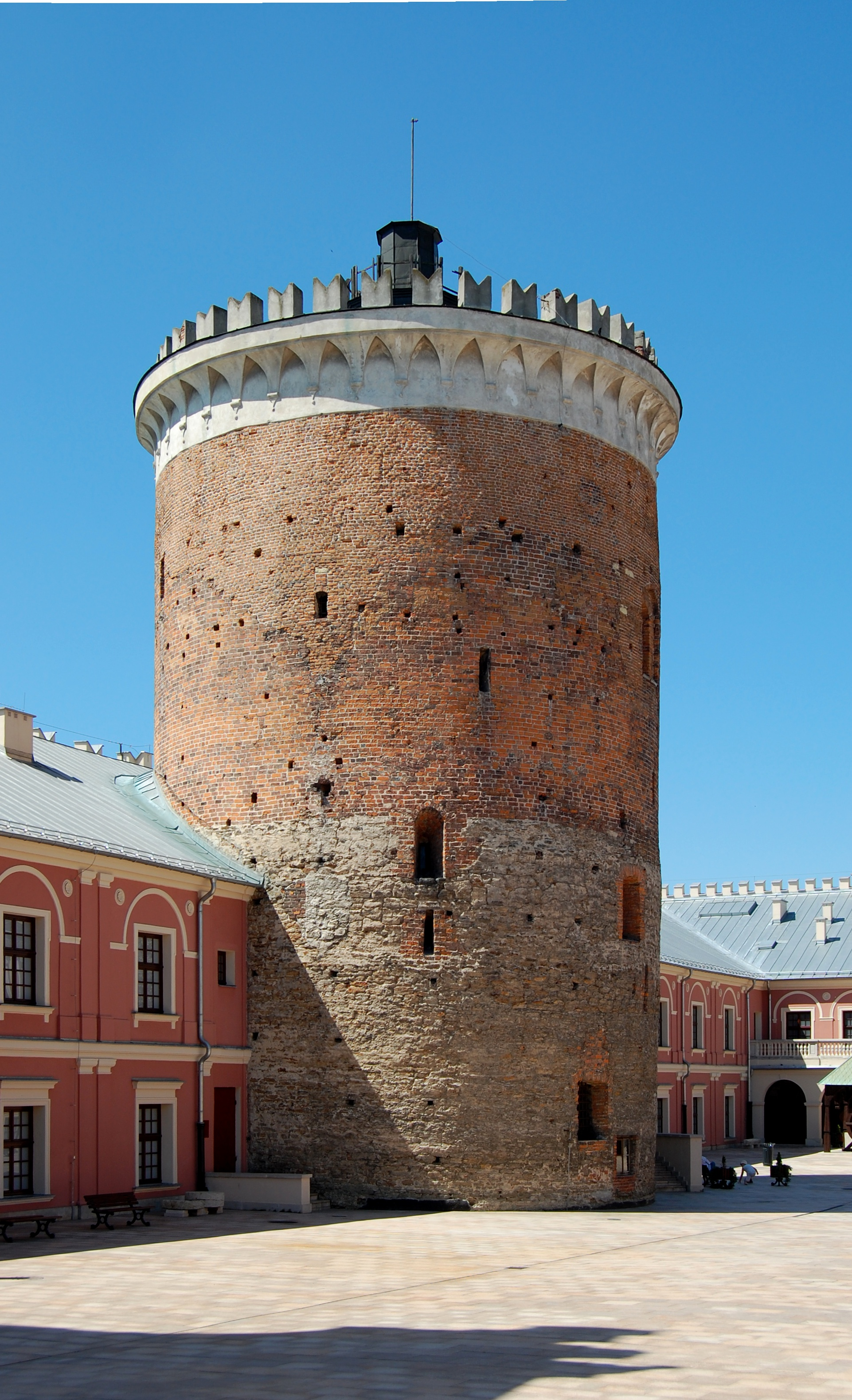 Lublin Keep, Lublin, Poland.